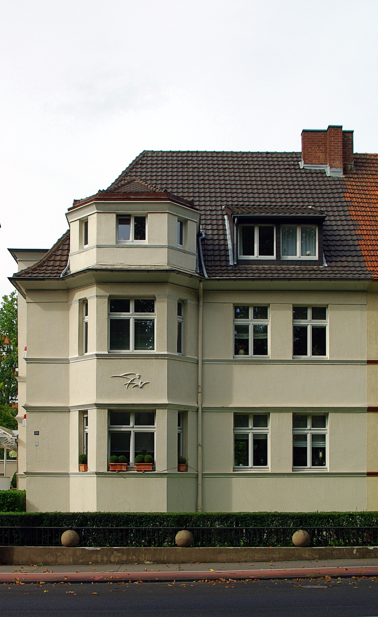 Bayenthalgürtel 30, Cologne-Marienburg